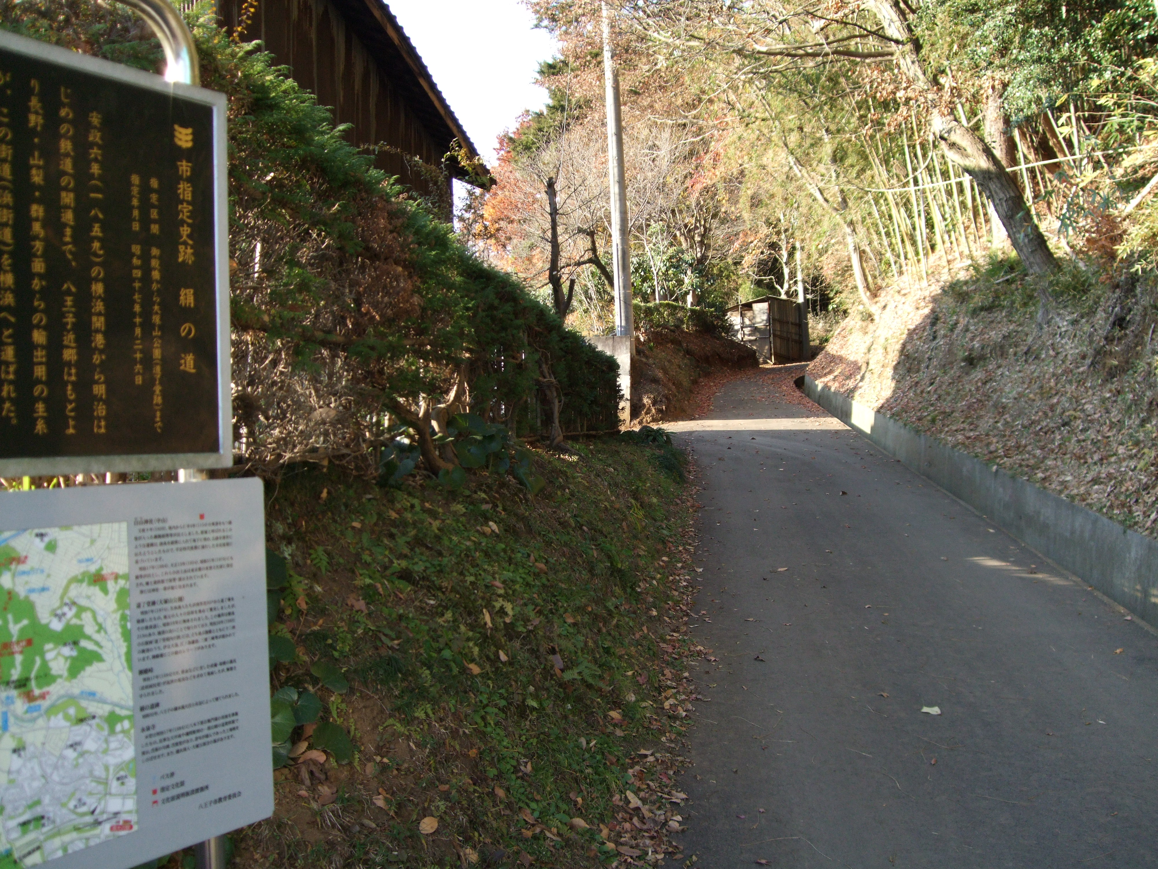 Kinunomichi iriguchi(entrance to the Silk-road in Japan,Tokyo,Hachioji)